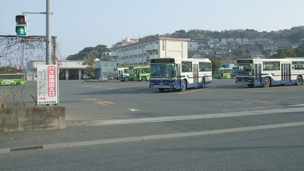 Kitakyushu City Transportation Bureau Wakamatsu Bus Depot